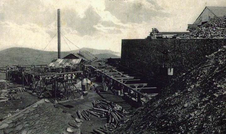 Silvarosa